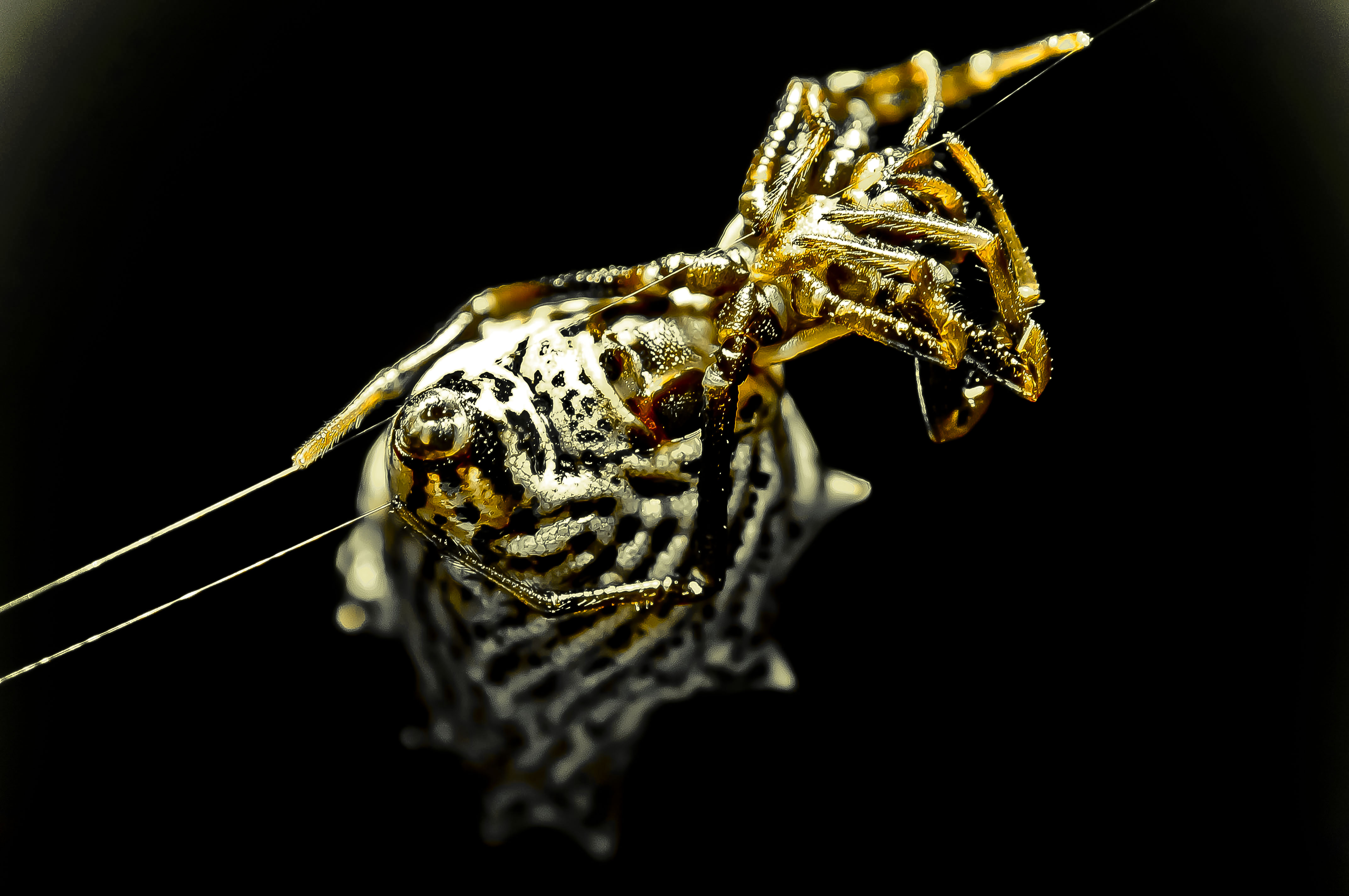 Spined micrathena bottom